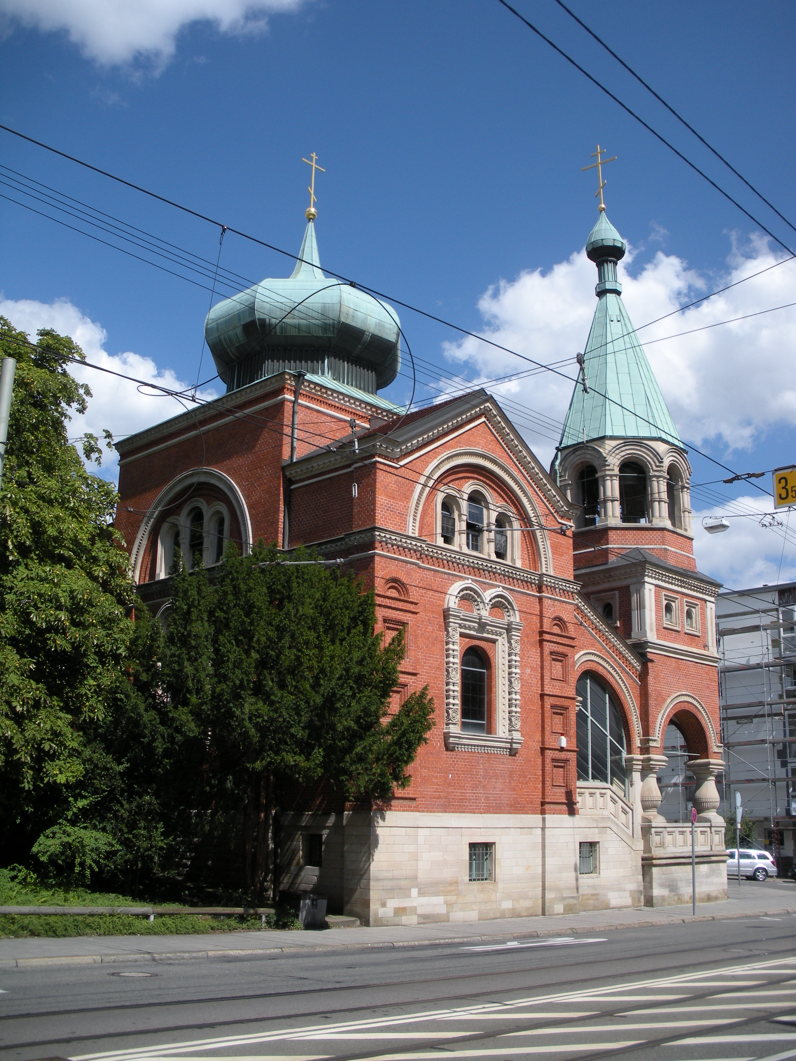 Russian Church in Stuttgart-West